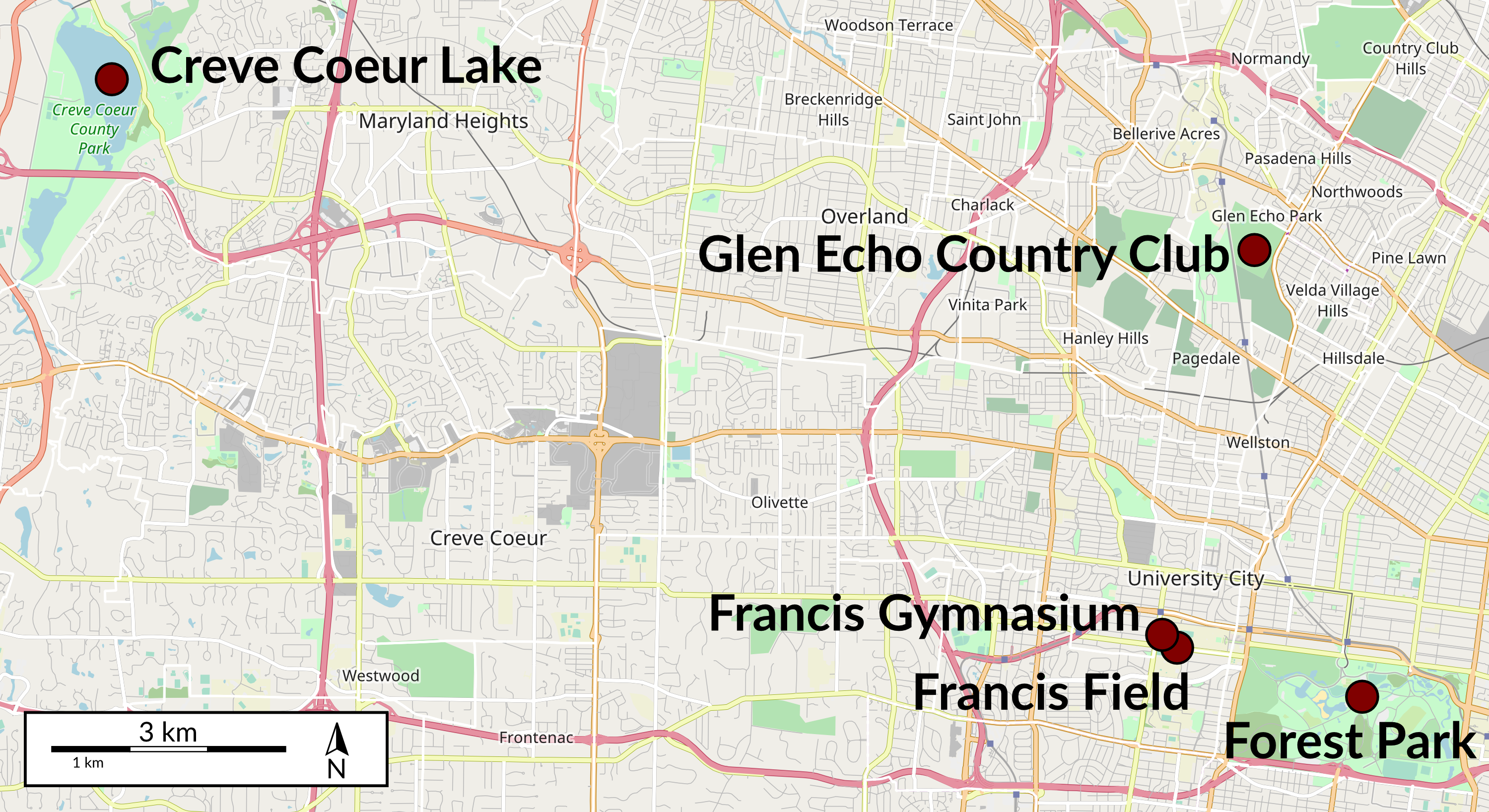 Map of the venues of the 1904 Saint-Louis Olympic Games (Missouri) This map may be incomplete, and may contain errors. Don't rely solely on it for navigation.